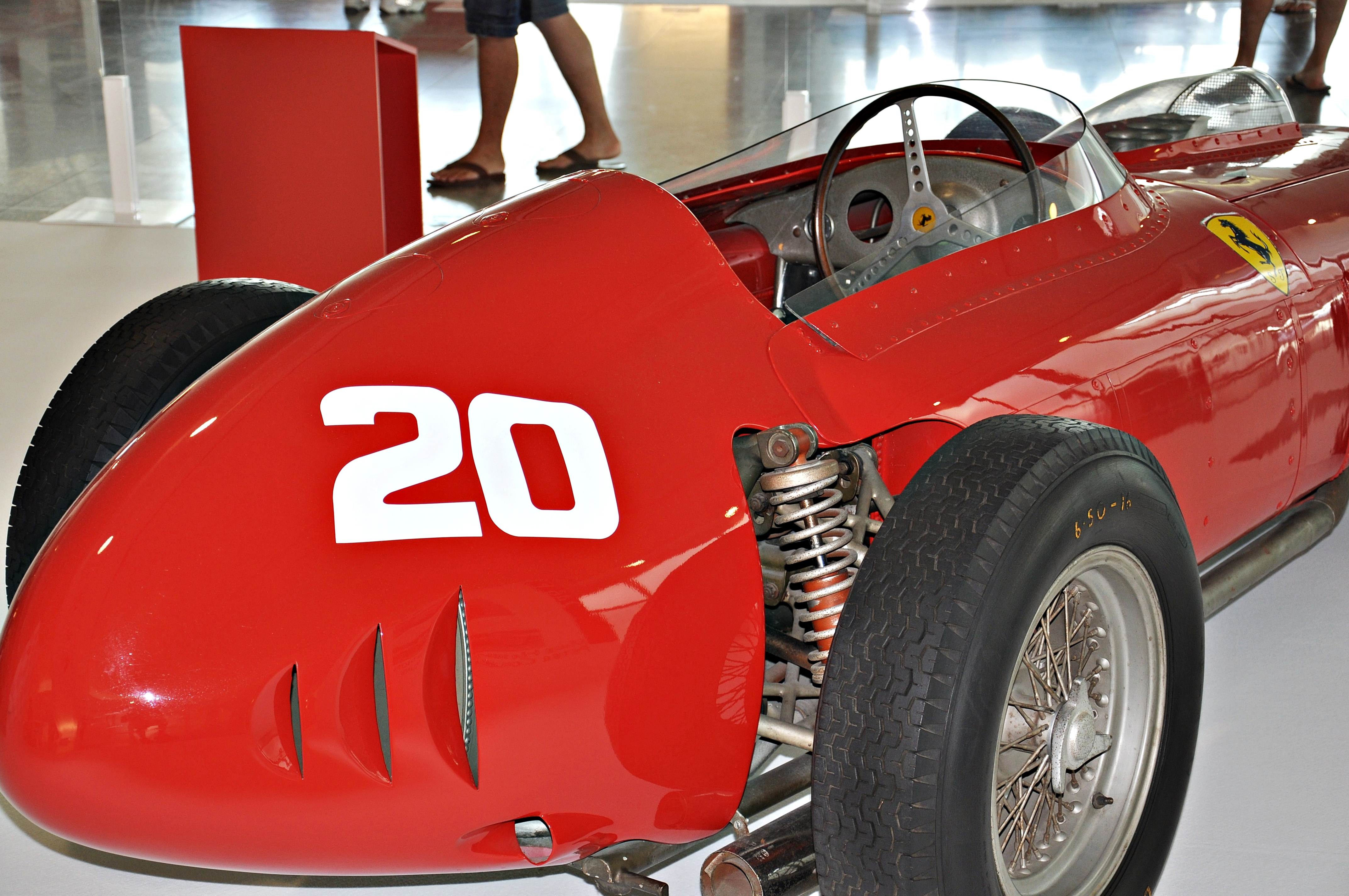 exposicion en la ciudad de las artes y las ciencias de valencia